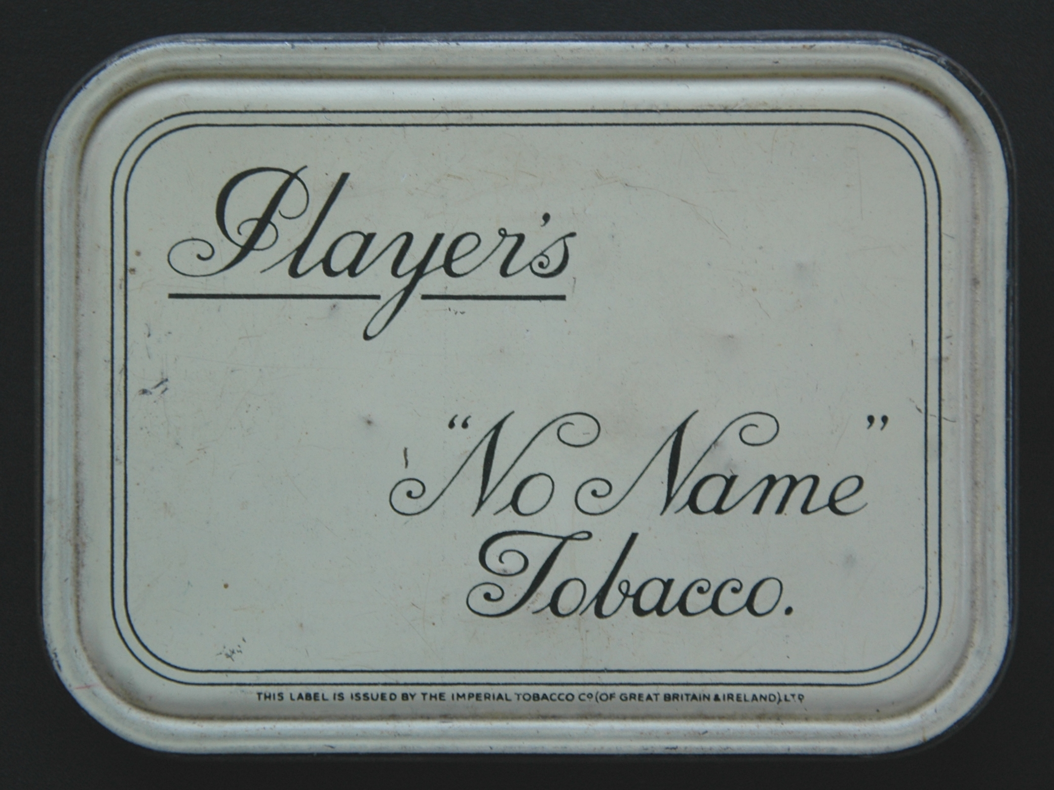 Enamelled metal box for 2 ounces of tobacco: Imperial Tobacco Company, Bristol, England